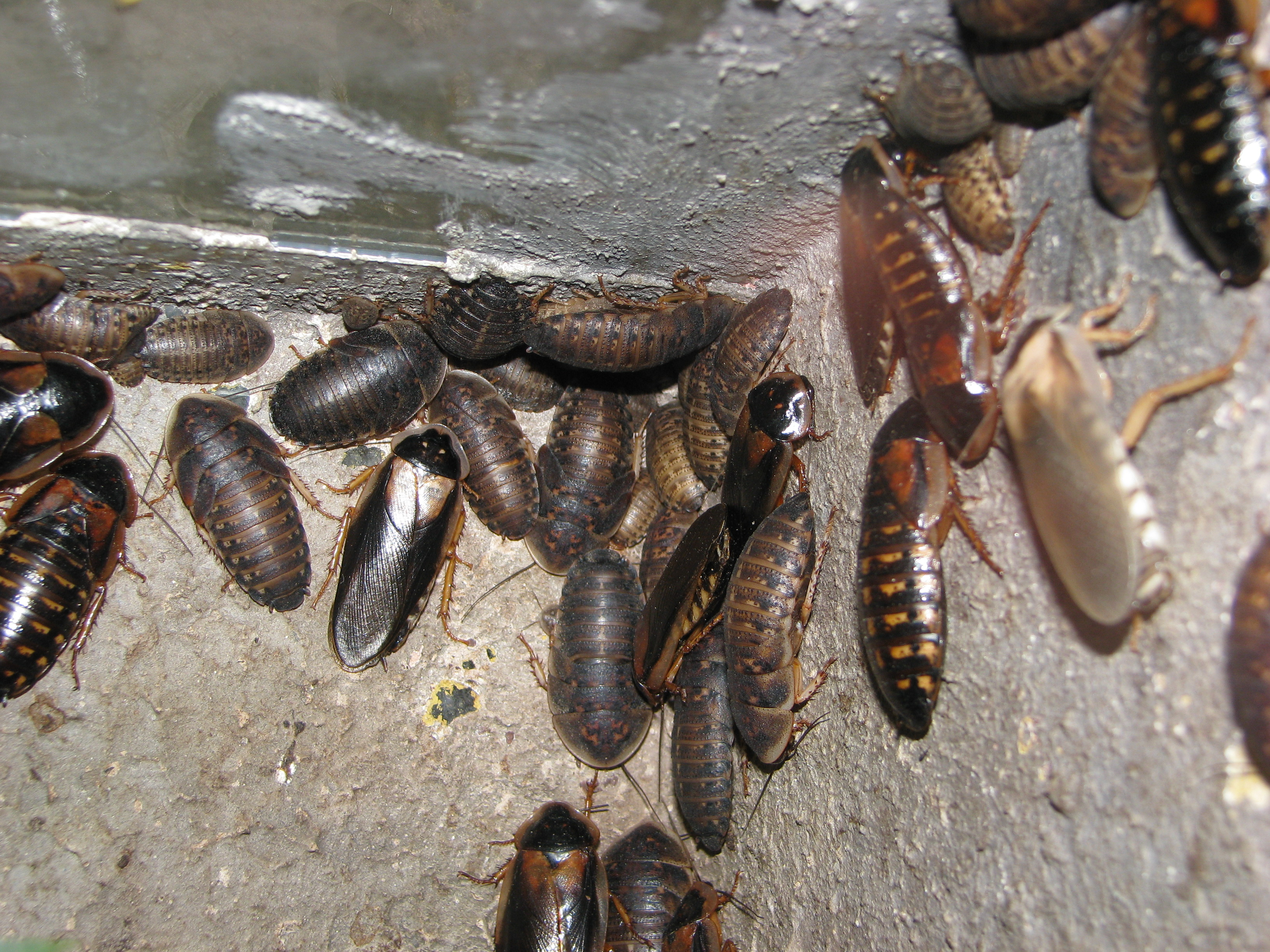 Dubia cockroach (Blaptica dubia) at Schwerin Zoo (Germany)